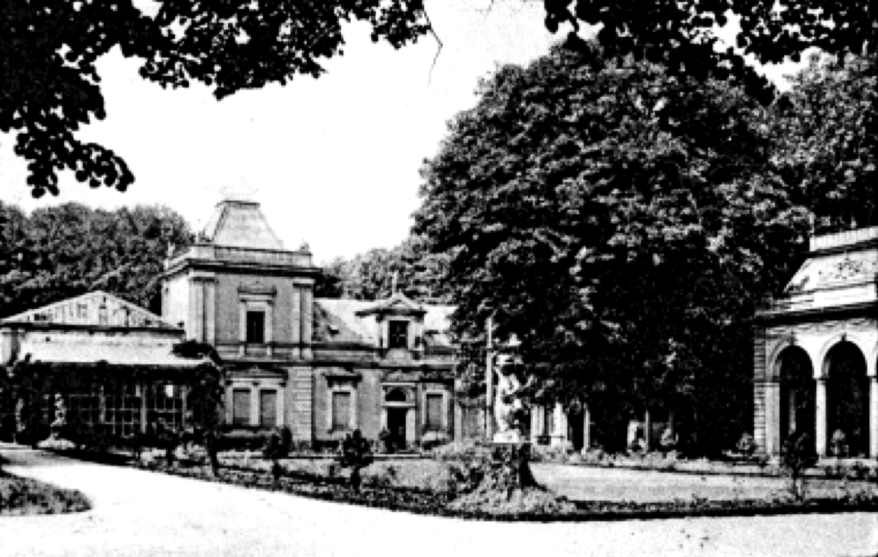 Building for the gardener Wilhelm Perring (1838–1906) within the private park of Hermann Killisch-Horn (1821–1886) in Pankow near Berlin.